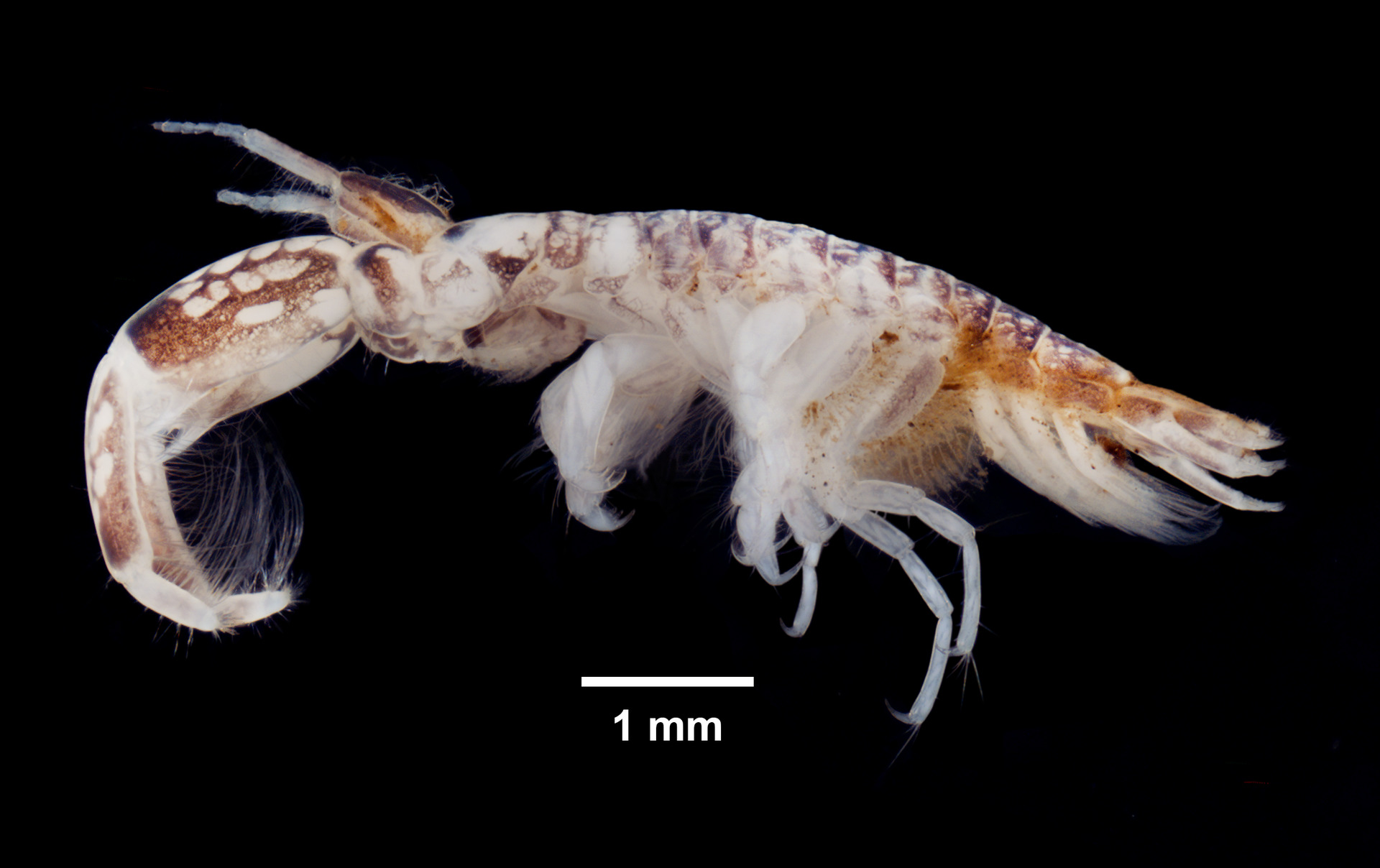 PRESERVED_SPECIMEN; ; 70% alc.; Det. by: Eric A. Lazo-Wasem 2016; GM image; IZ number 82110; lot count 1; specimen; male; 2016-06-02T00:00:00Z